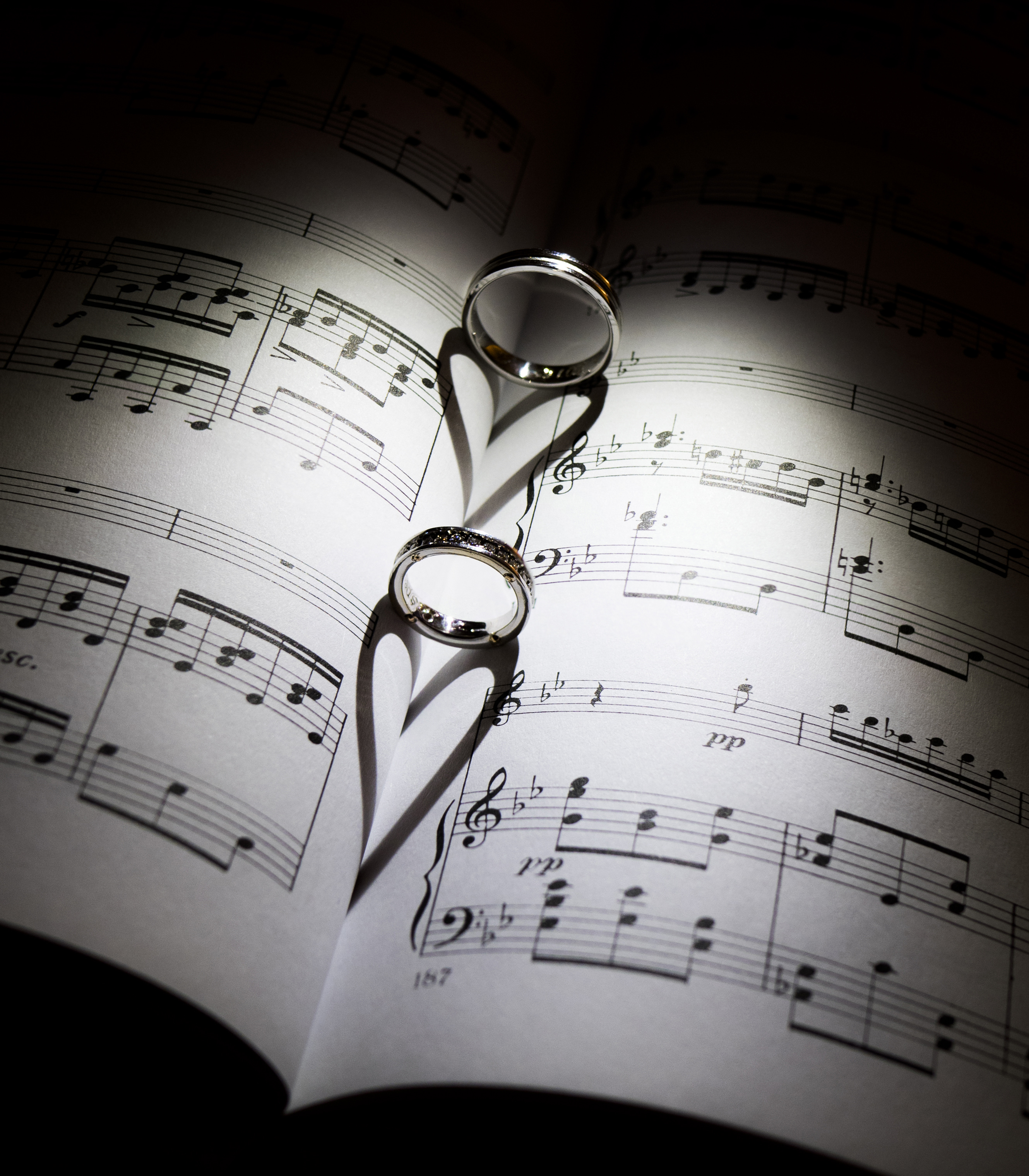 Wedding rings with the shadows of a heart-symbol of love.